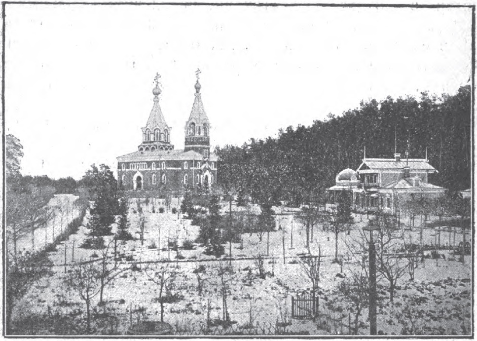 Aleksandrovskoe ubezhische. Moscow.